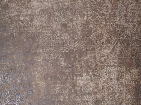 This Photo was taken by Mr. Sudarshan Bhat Khandige during his visit to Badami (Karnataka state, India) in 2006. The Photograph has been uploaded with full permission from the owner.